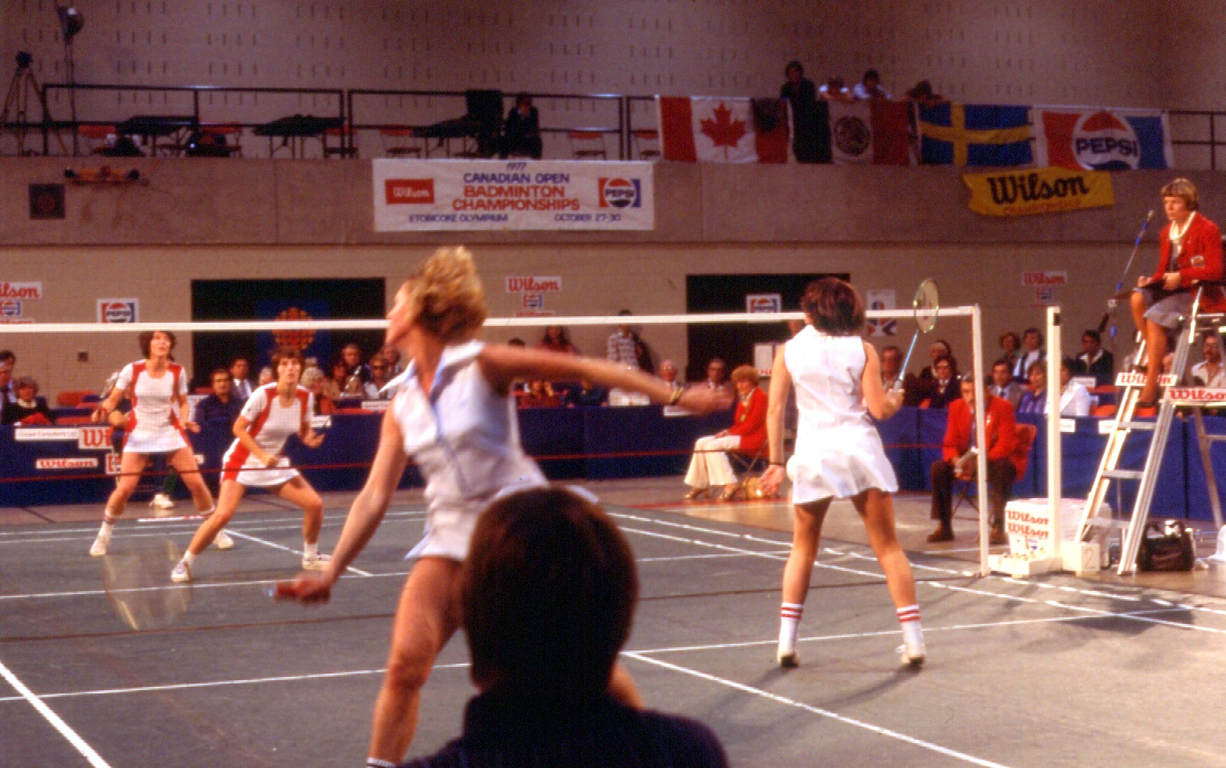 Nora Perry (front, left) and Karen Puttick (front, right) against Barbara Sutton and Jane Webster at the Canadian Open 1977 in Badminton at Etobicoke Olympium.